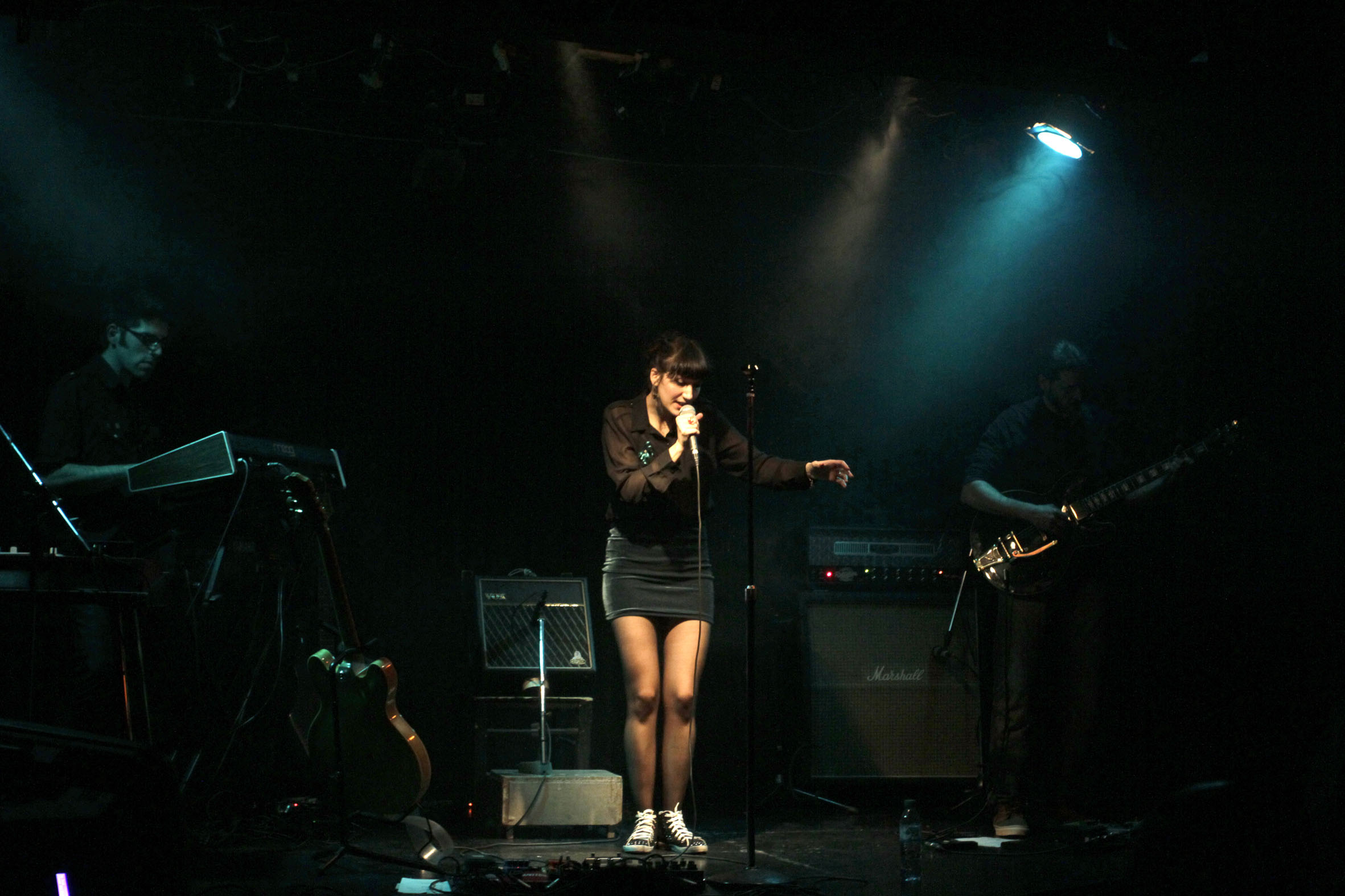 Lendi Vexer playing at Liberarte, Buenos Aires, Argentina.